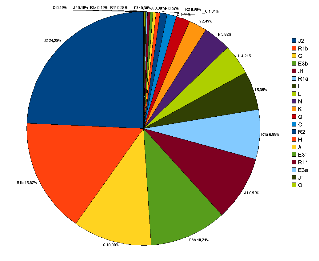 Y chromosome Haplogroup distribution in Turkey. Source cinnioglu et al. 2004. Many haplogroup showed in low resolution(e.g j2b showed as part of j2) in order to create acceptable size of pie chart.